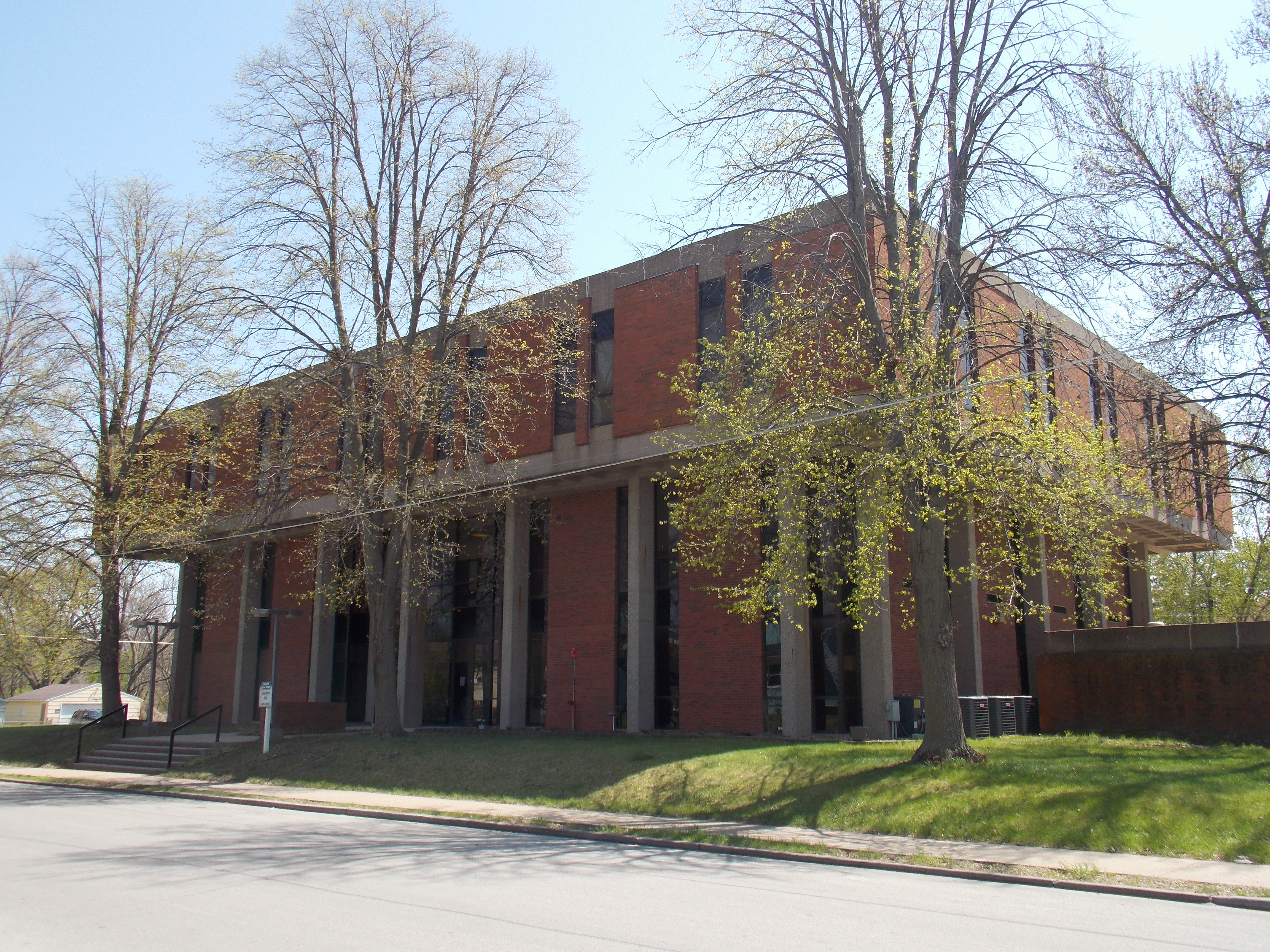 The Nursing Education Building on the campus of the former Marycrest College in Davenport, Iowa. The campus forms an historic district on the National Register of Historic Places.